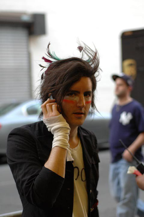 Photo of Mat Devine (taken by Andrew Brucker of